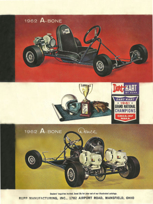 Original advertisement for 1962 Rupp A-Bone kart.